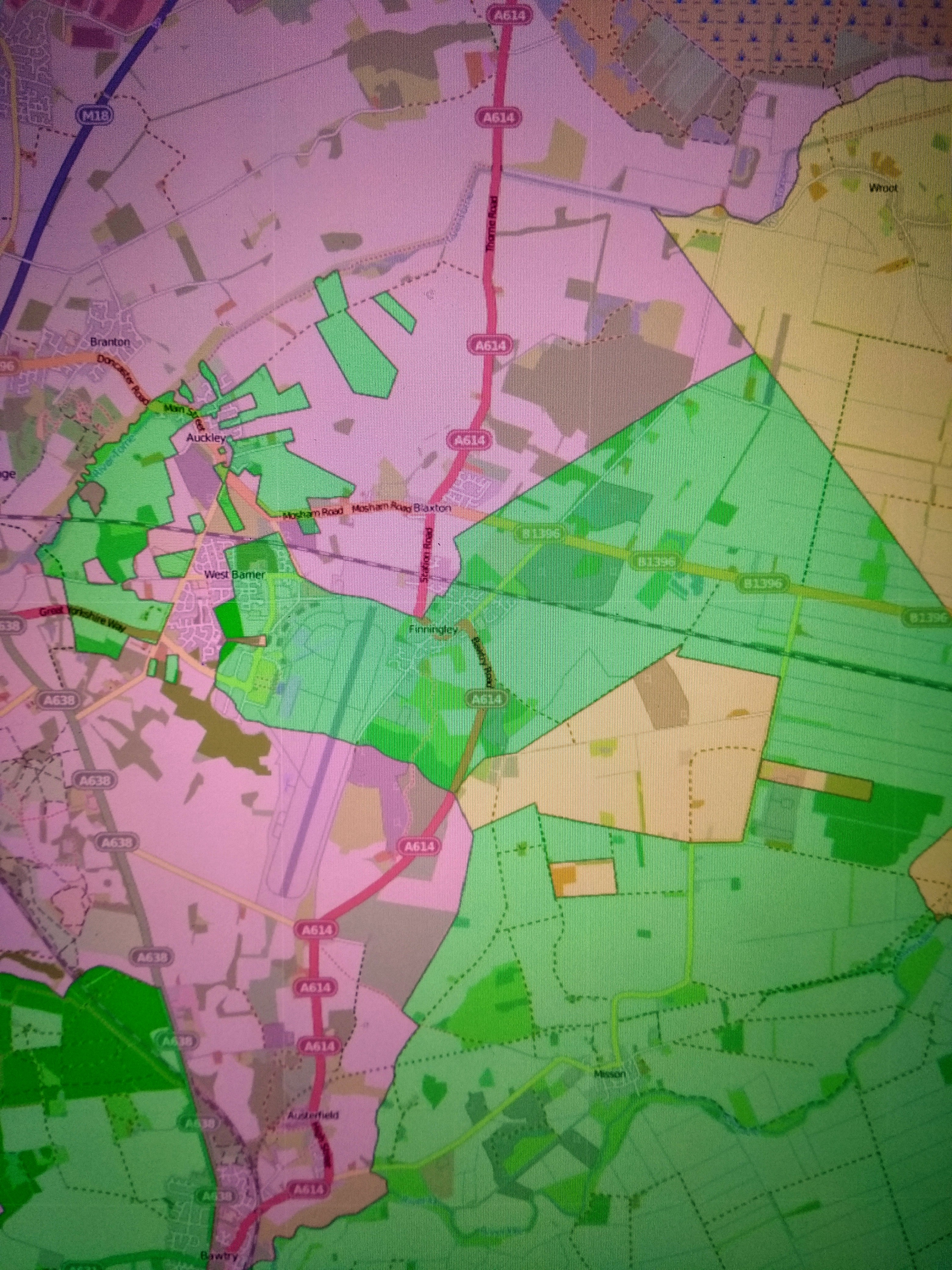 Complicated county boundaries at Misson and Auckley.